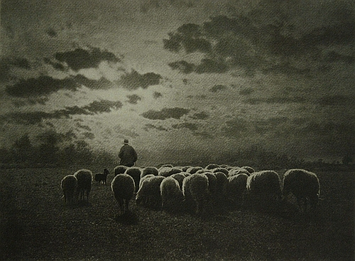 Au Coucher du Soleil